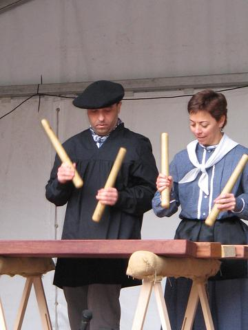 Two txalapartaris playing at a fair during Saint Thomas day, in Donostia-San Sebastian